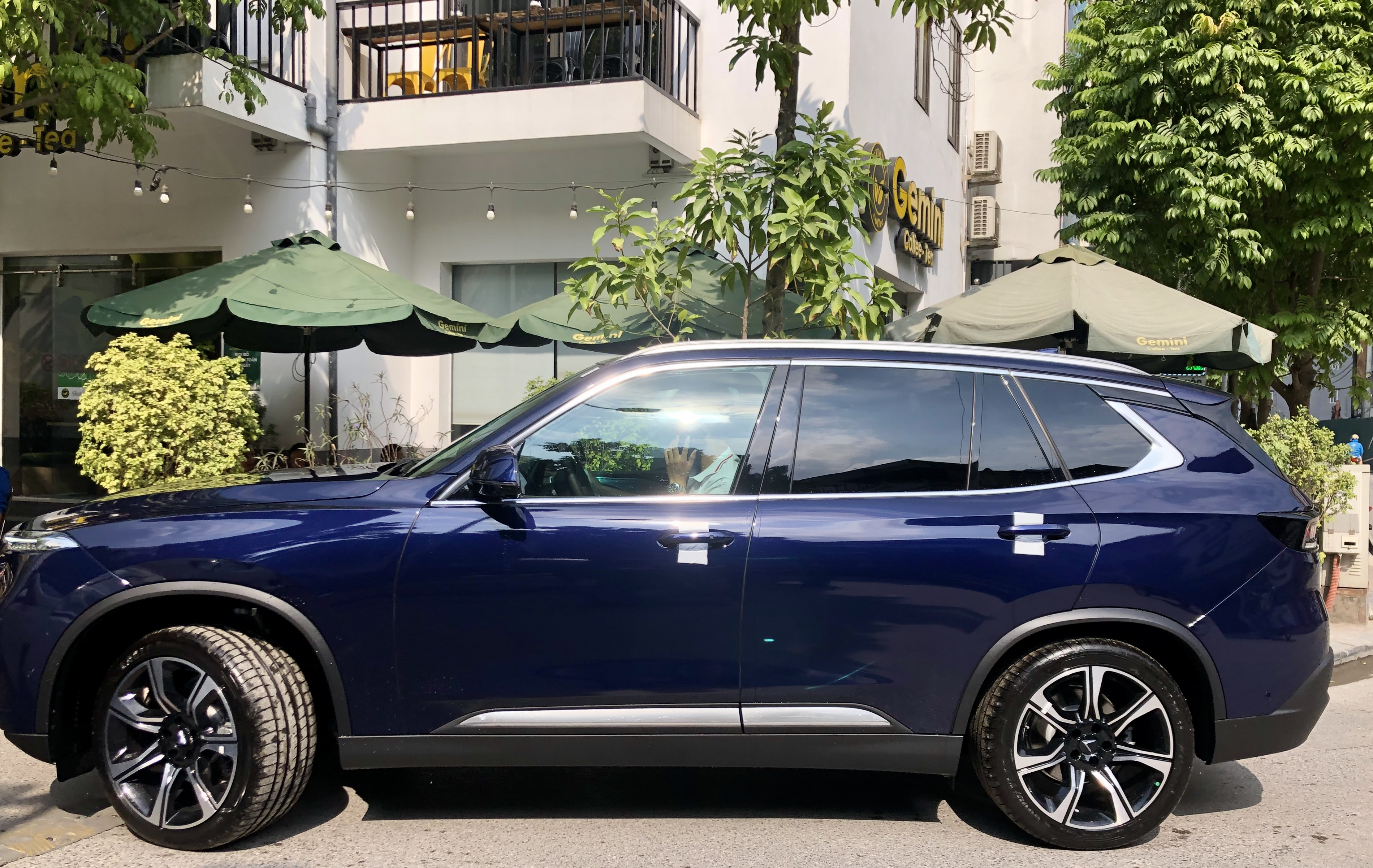 Blue VinFast Lux SA2.0 Suv at Times City, Hanoi 2019